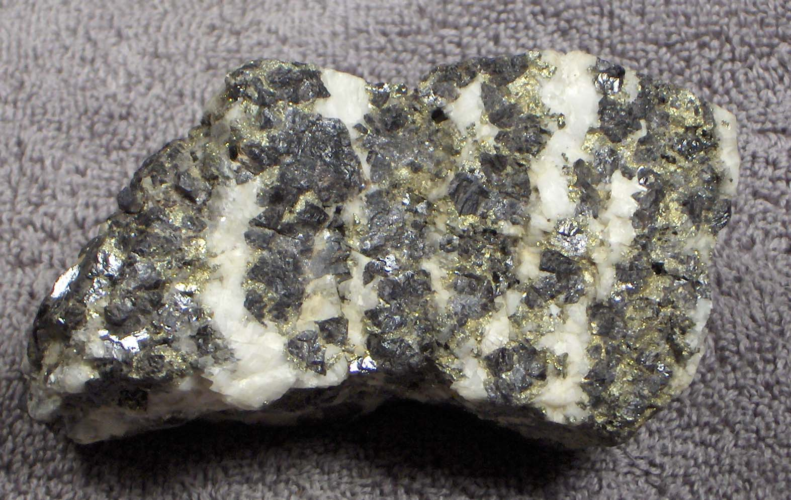 Fist-sized specimen of coarse-grained and crudely banded ore from the now closed Nanisivik MVT (Mississippi Valley-Type) lead-zinc mine on Baffin Island, Nunavut Territory, Canada. Dark brown to black bands = sphalerite (zinc sulphide), yellow = pyrite (iron sulphide) and white = dolomite (calcium-magnesium carbonate).